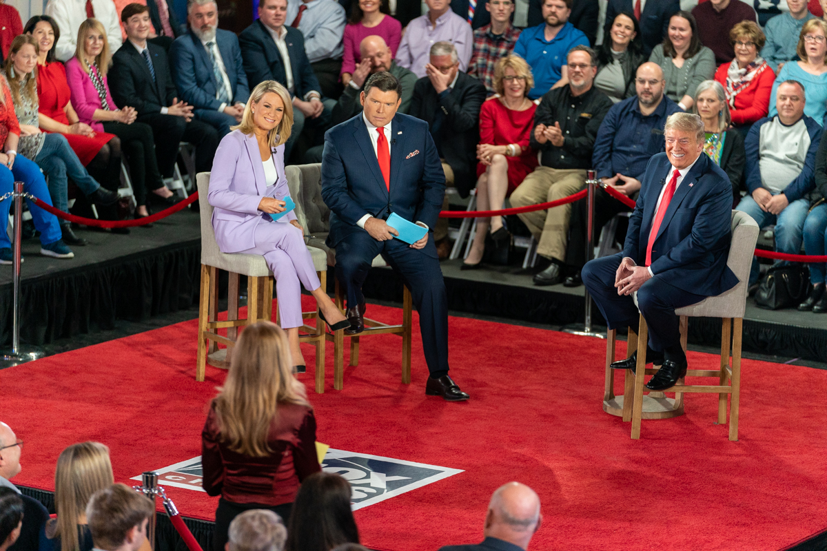 President Donald J. Trump listens to a question from the audience during a live Fox News Channel town hall event with moderators Bret Baier and Martha MacCallum on Thursday, March 5, 2020, at the Scranton Cultural Center in Scranton, Pa. (Official White House Photo by Shealah Craighead)